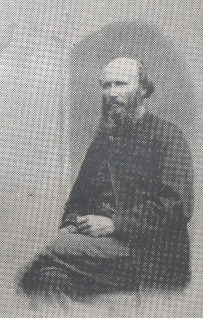 JW Robertson, first mayor of the First Municipal Council of Queenstown photographed in 1866